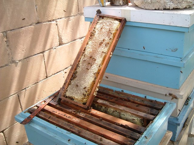 A frame of sealed multiflora honey Malti: Tilar bl-għasel tar-rebbiegħa issiġillat.